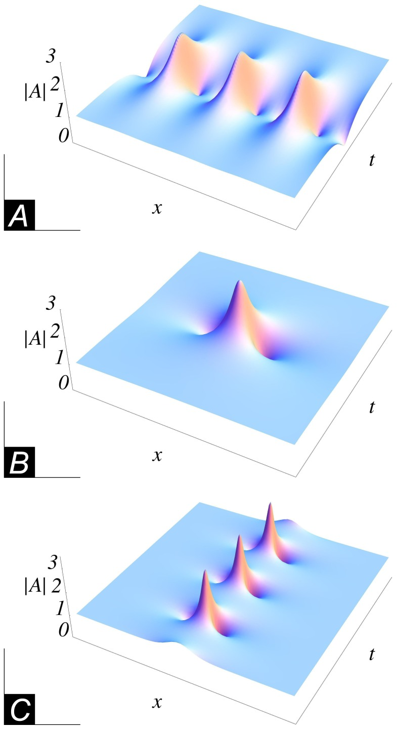 Absolute value of the complex envelope of exact analytical breather solutions of the Nonlinear Schrödinger (NLS) equation in nondimensional form. (A) The Akhmediev breather; (B) the Peregrine breather; (C) the Kuznetsov–Ma breather. From: Miguel Onorato, Davide Proment, Günther Clauss and Marco Klein (2013) "Rogue Waves: From Nonlinear Schrödinger Breather Solutions to Sea-Keeping Test". PLoS One 8(2): e54629, PMC 3566097